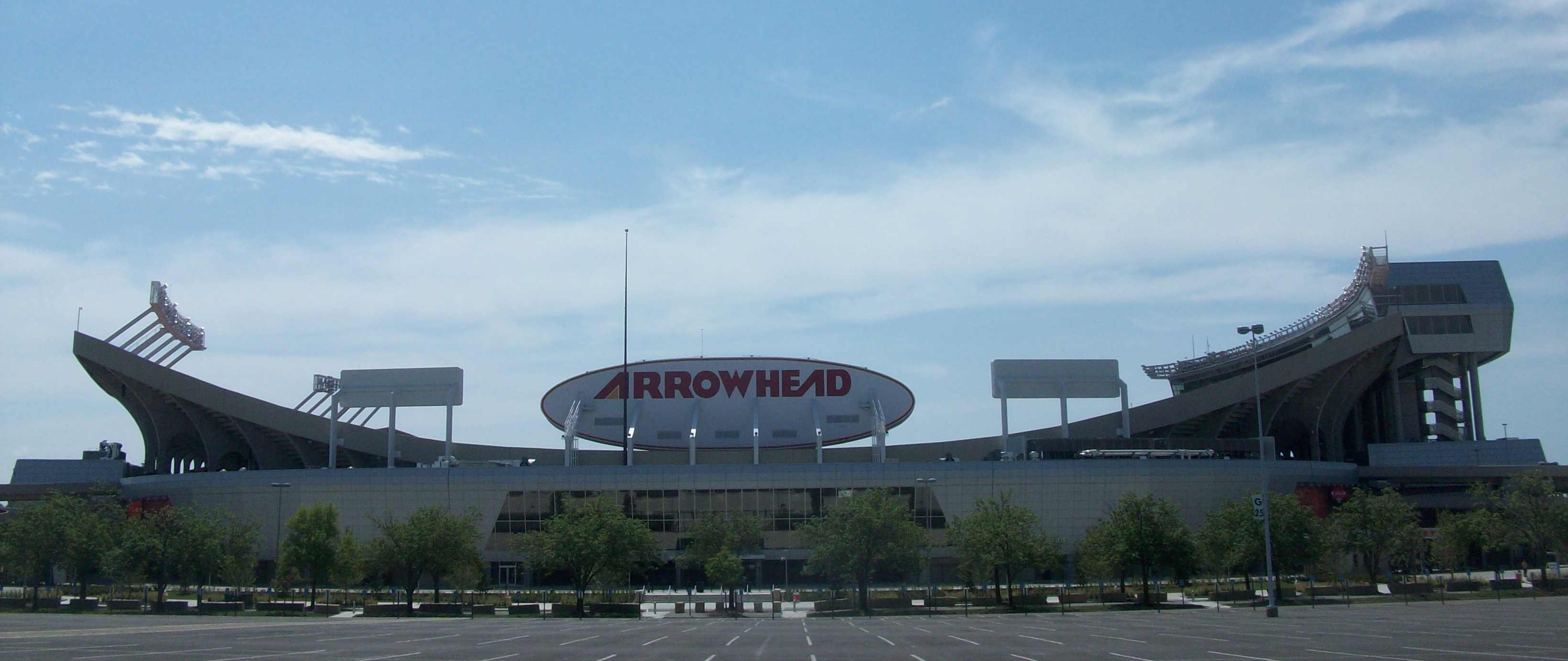 Exterior of Arrowhead Stadium in July 2010, after the renovations were completed and unveiled.